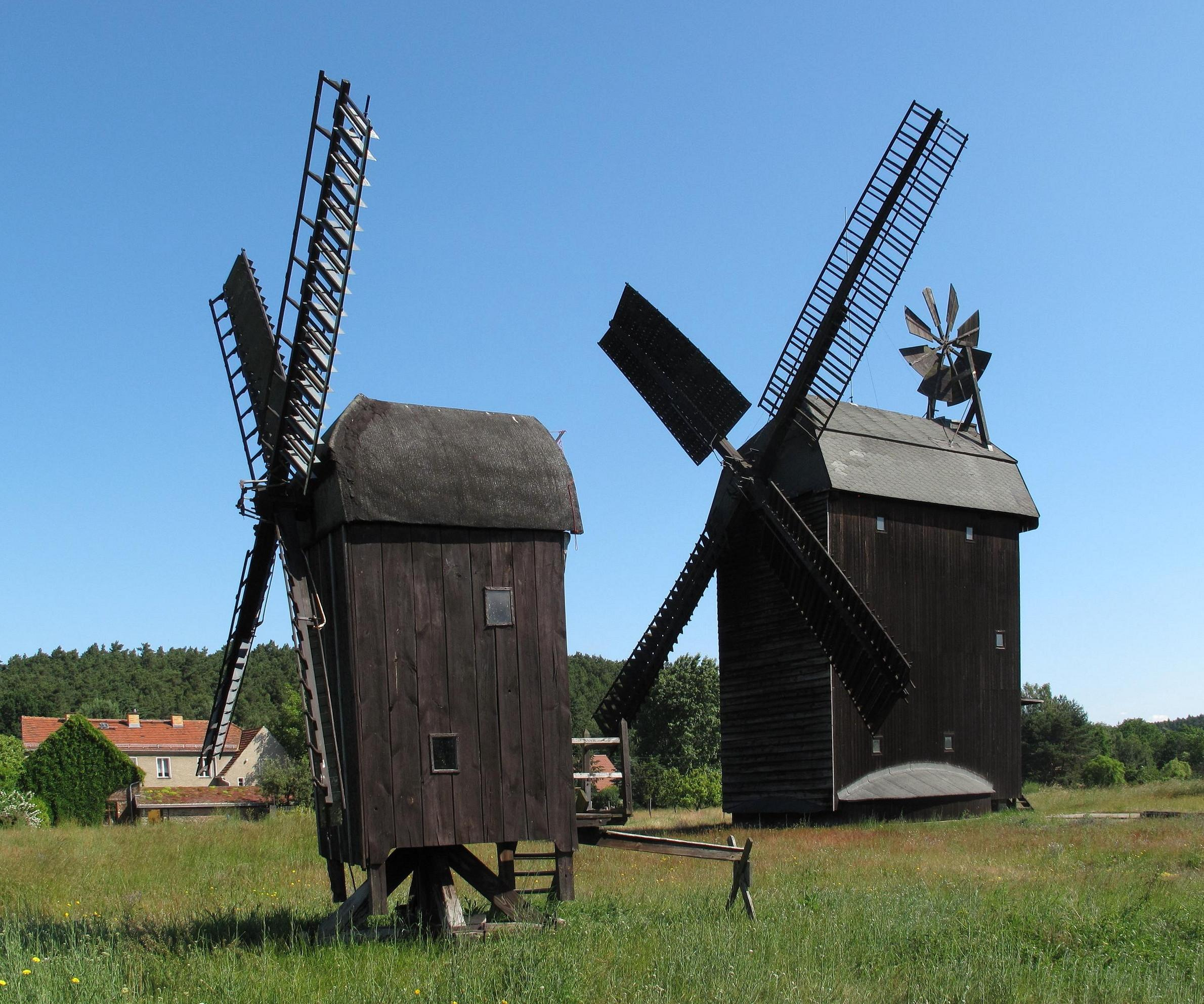 Listed Paltrok mill and Post mill (miniature mill on a 1:4 scale) Langerwisch. Langerwisch is a part of Michendorf in the district Potsdam-Mittelmark, state Brandenburg, Germany.